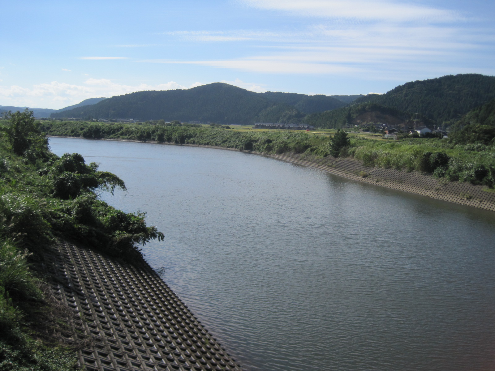 Machino River(Wajima city, Ishikawa prefecture)